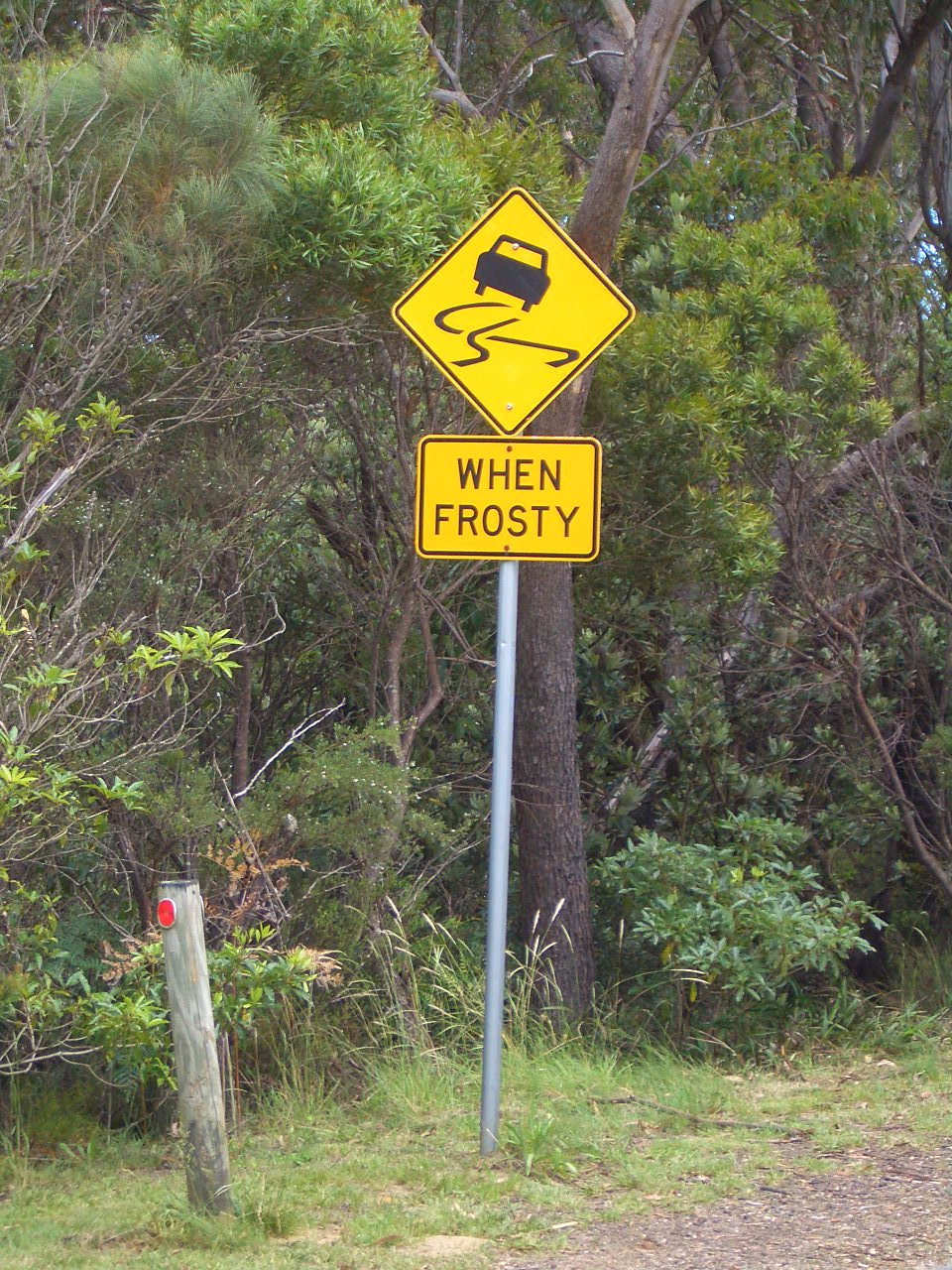 "Road Slippery When Frosty", a road sign in Katoomba, New South Wales (elevation over 1000 m)